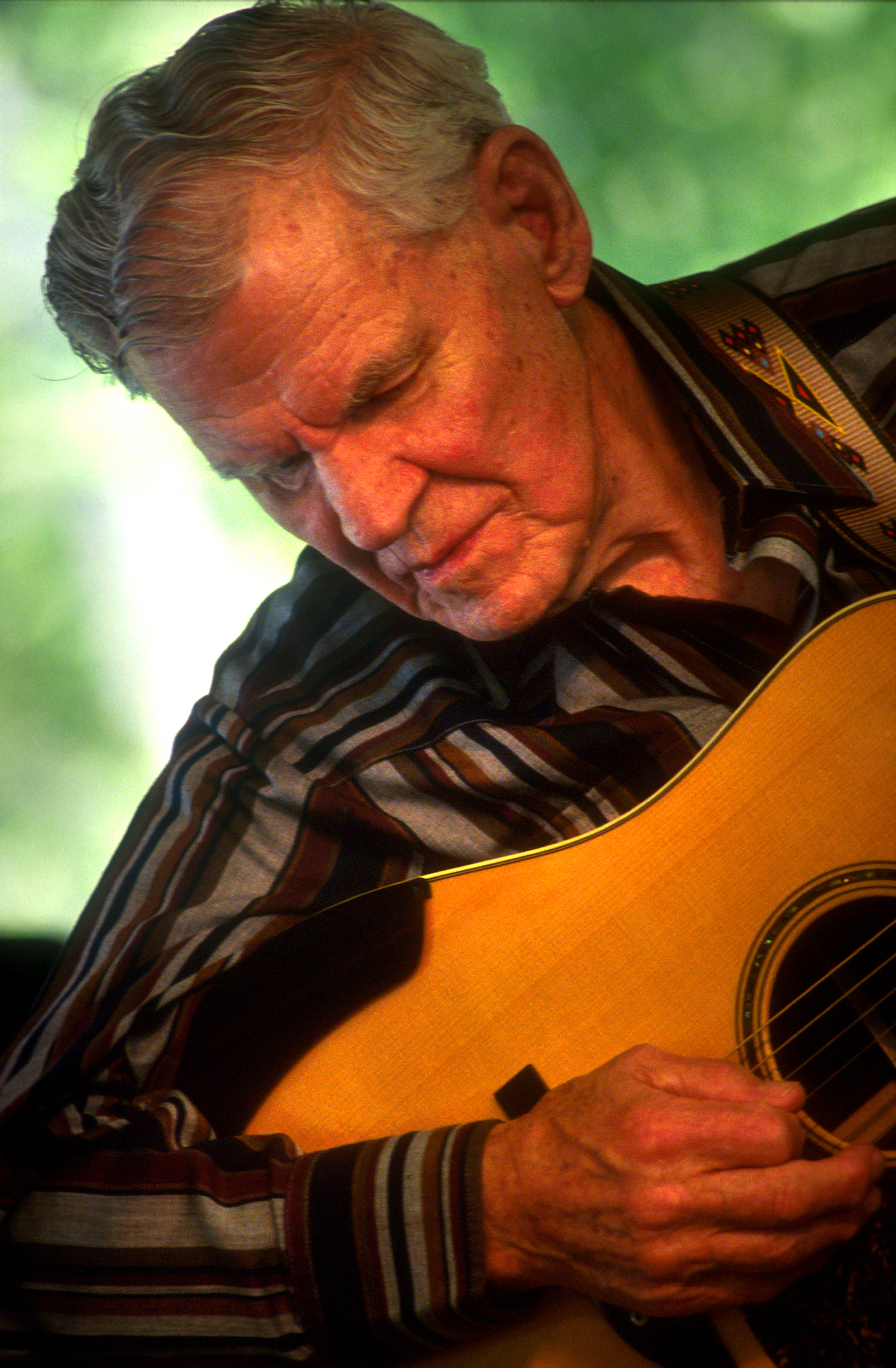 Doc Watson (Photo by Austen Millkulka)